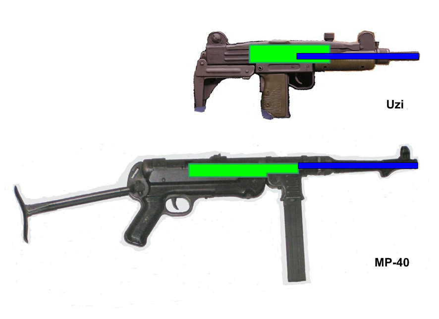 Internal diagram showing a telescoping bolt submachinegun, the Uzi, and a conventional submachinegun, the MP40, relative sizes. The gun's barrels (blue) and bolts (green) are diagramed.